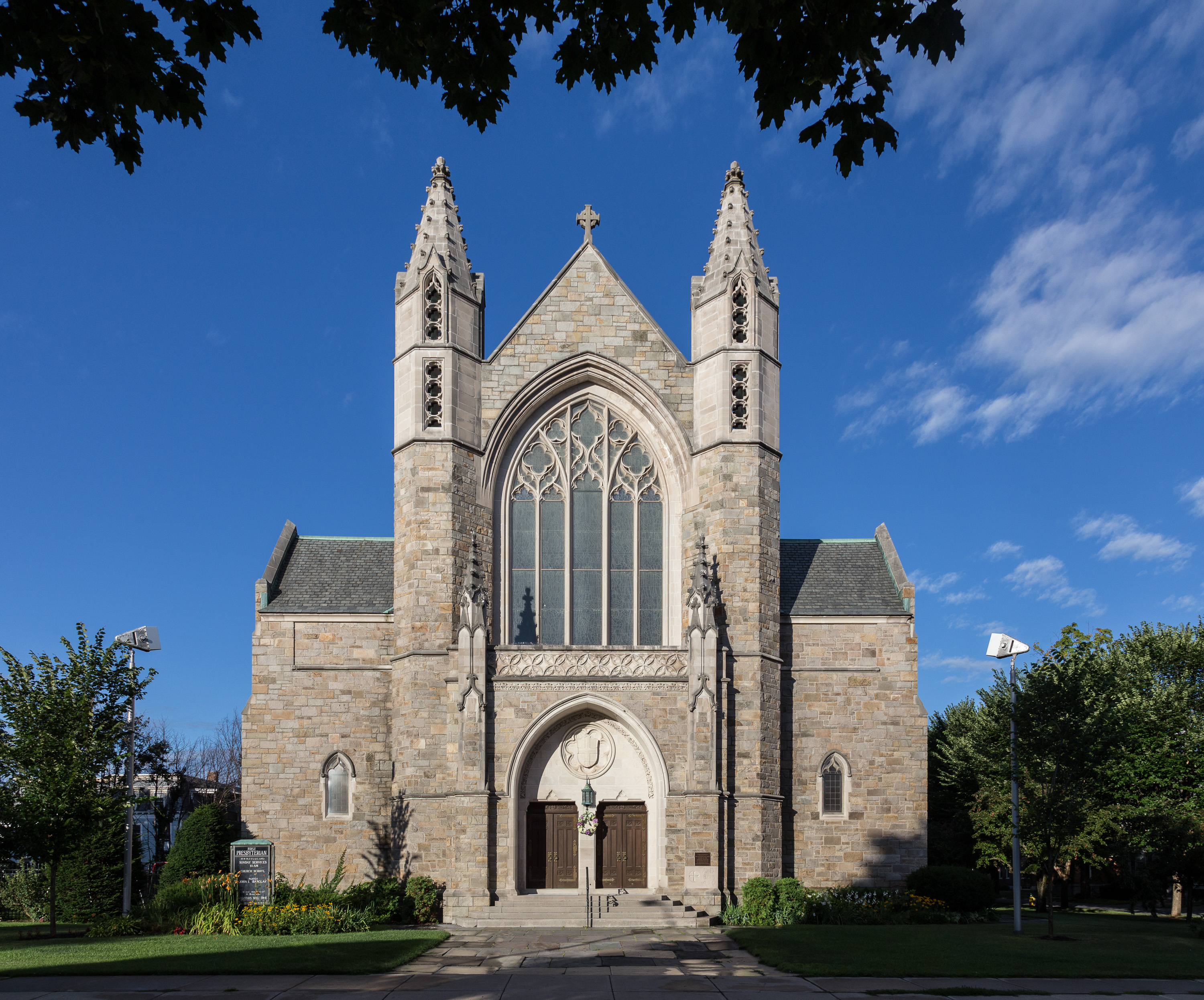 First Presbyterian Church, Glens Falls, Warren County, NY. NRHP 84003314